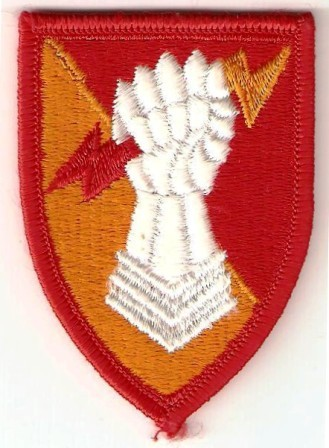 38th Air Defense Artillery Brigade shoulder sleeve insignia. US Army insignia, not eligible for copyright